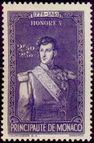 Stamp of Honore V of Monaco